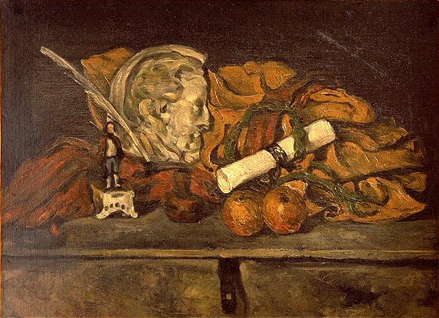 Still life with a medallion of Solari. 80 x 60 cm. Musée d'Orsay, Paris